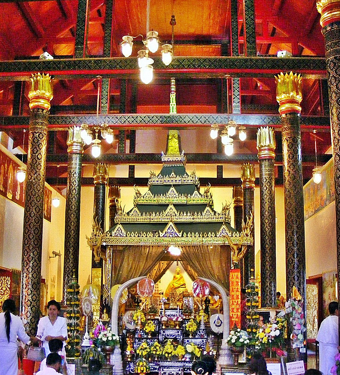 Building interior at Phra Thaen Sila At Location: Wat Phra Thaen Sila At Uttaradit Province, Thailand.